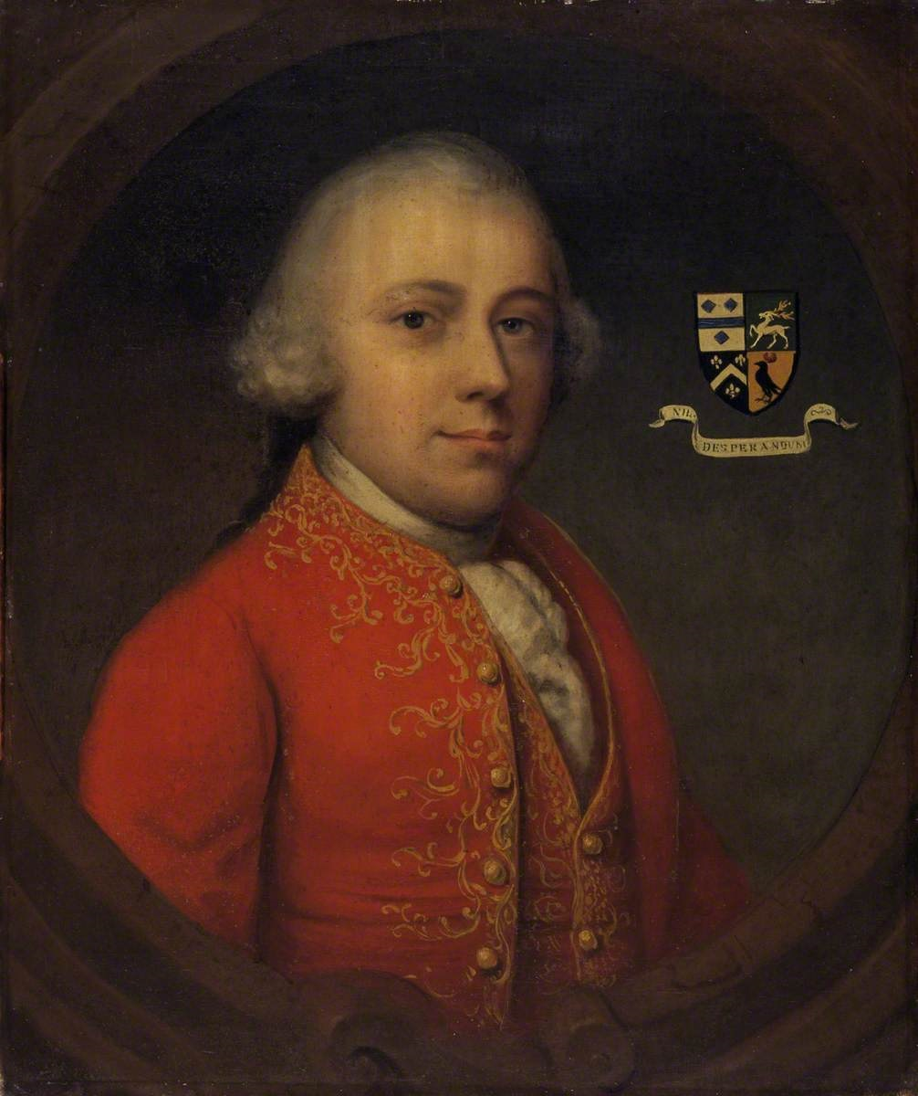 Portrait of John Parry